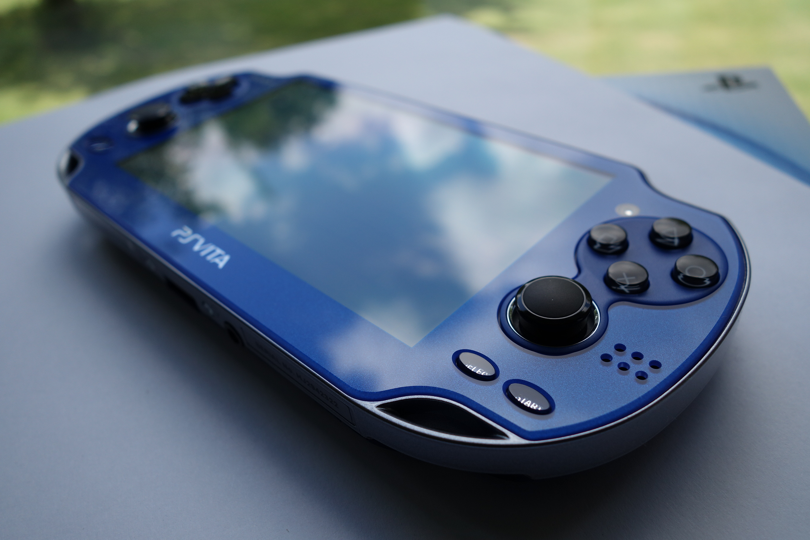 A PCH-1000 model PlayStation Vita in "Sapphire Blue" colour.